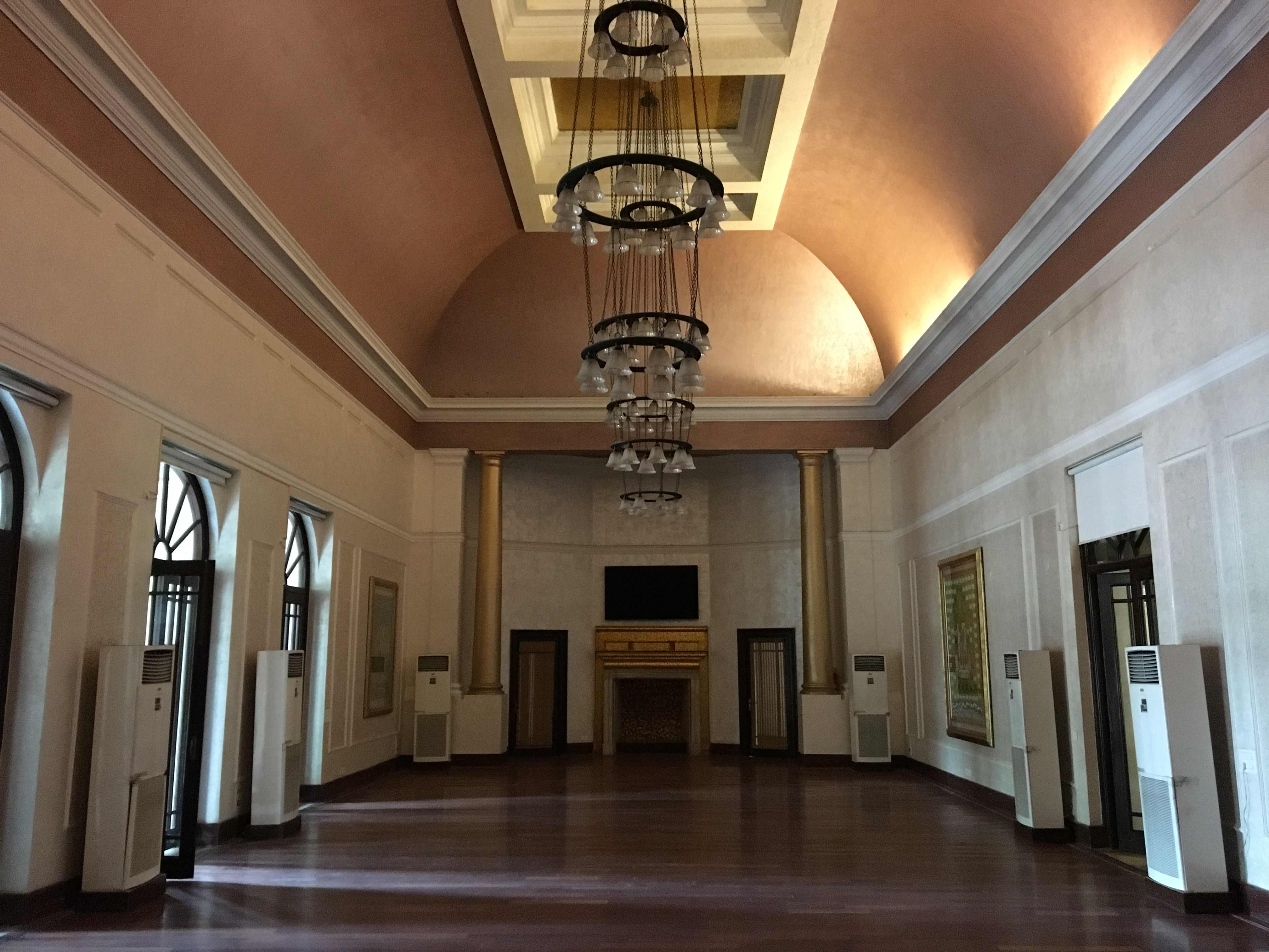 Bikaner House in New Delhi, former residence of the Maharajah of Bikaner.